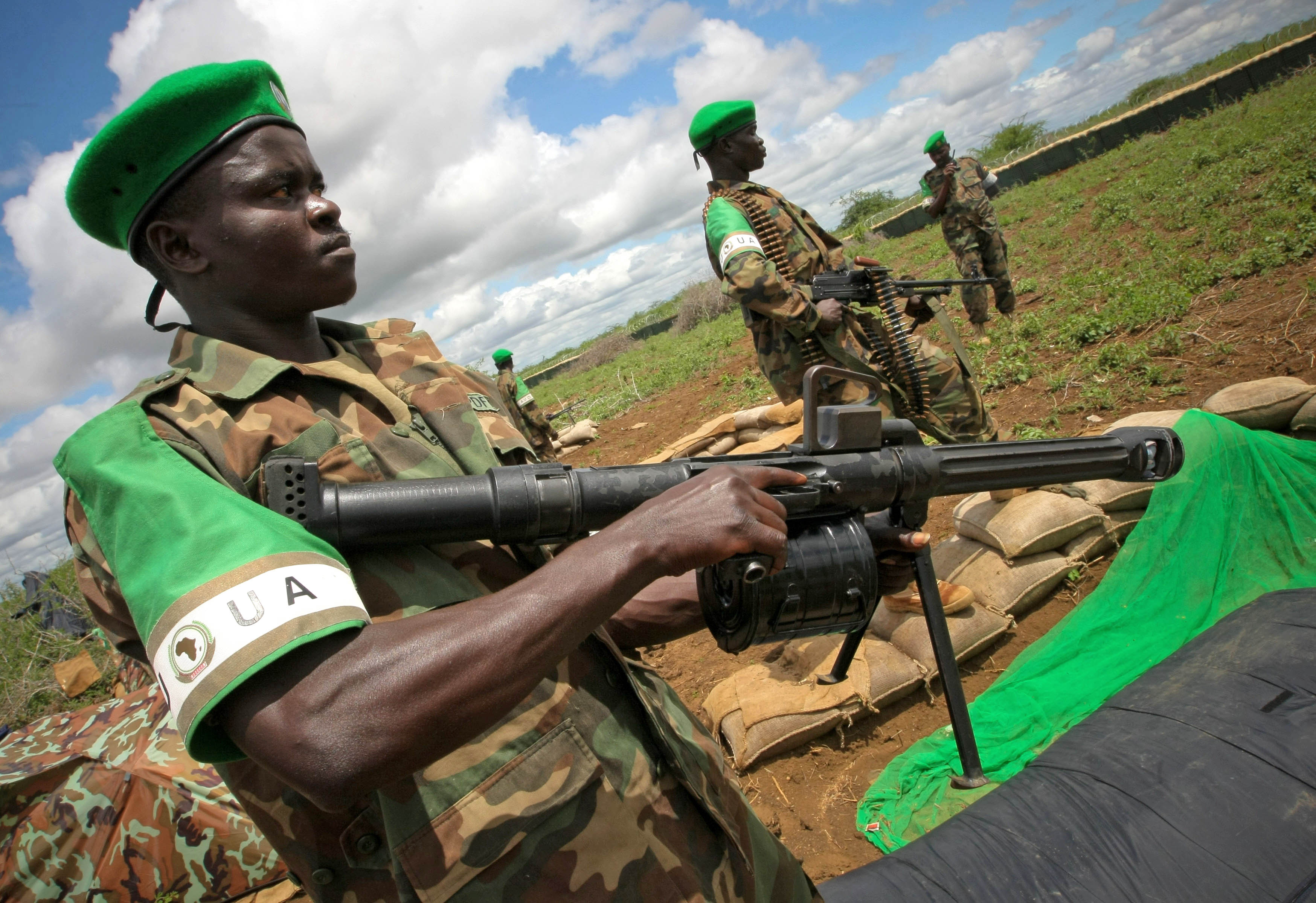 Ugandan soldiers serving with the African Union Mission in Somalia (AMISOM) man positions along a defensive line 15 May 2012, in the area surrounding Baidoa airstrip in central Somalia. An advance joint-contingent of 120 Ugandan and Burundian AMISOM troops are on the ground in Baidoa, 240km west of Mogadishu and are the first forces the AU mission has deployed outside the Somali capital since its initial deployment in 2007. Ethiopian forces took control of Baidoa from the Al-Qaeda-affiliated extremist group Al Shabaab in February of this year, one of string of strategic losses Shabaab has suffered with the group losing ground on three separate fronts to allied Kenyan and Somali National Army (SNA) forces in the south of the country; being driven from the Somali capital by SNA and AMISOM forces and conceding territory to the Ethiopians and pro-government militia in the west. AMISOM will soon deploy several thousand troops to Baidoa and the surrounding area, replacing the Ethiopian forces currently on the ground and expanding its operations throughout the country. AU-UN IST PHOTO / STUART PRICE.Note: The grenade launcher is a QLZ87 in light configuration with 6 round magazine.